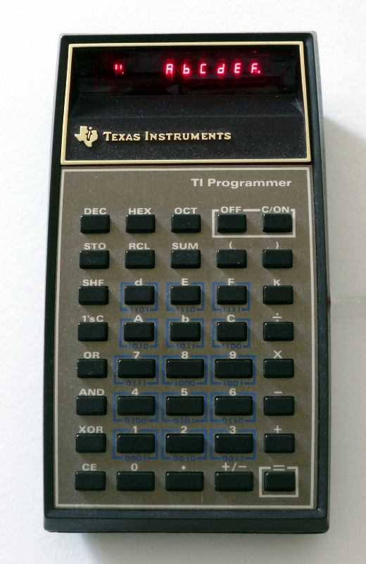 TI-Programmer in hexadecimal mode (indicated by the two lines in the display far left); the hex number ABCDEF is displayed which is decimal 11259375